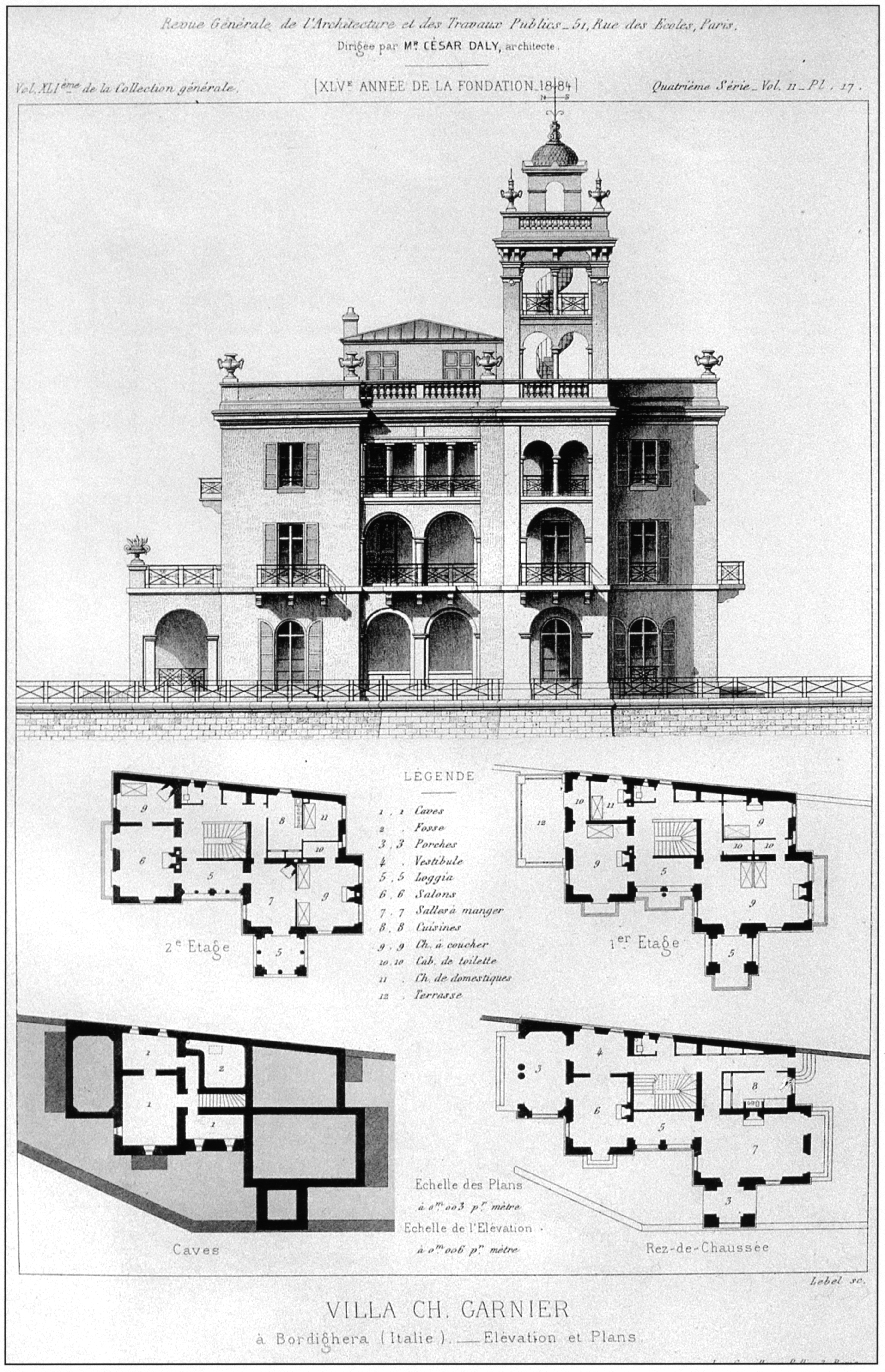 Architectural drawings of the Villa Garnier in Bordighera, Italy, designed by the villas original owner, French architect Charles Garnier, as published in César Daly's Revue de l'Architecture et des Travaux Publics (Paris, 1886).